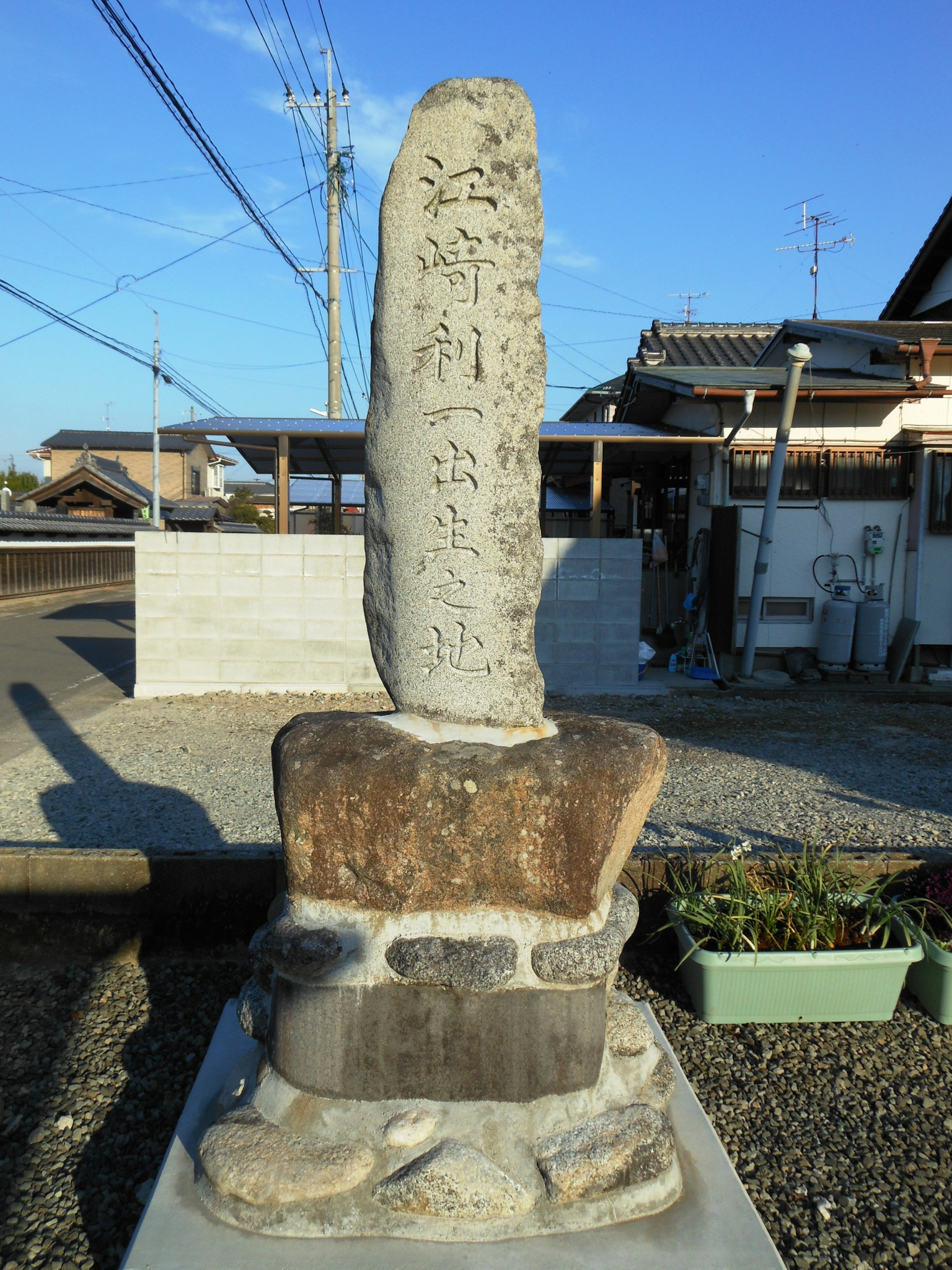 The monument of birthplace of Ezaki Riichi, the founder of Japanese confectionery company Ezaki Glico.